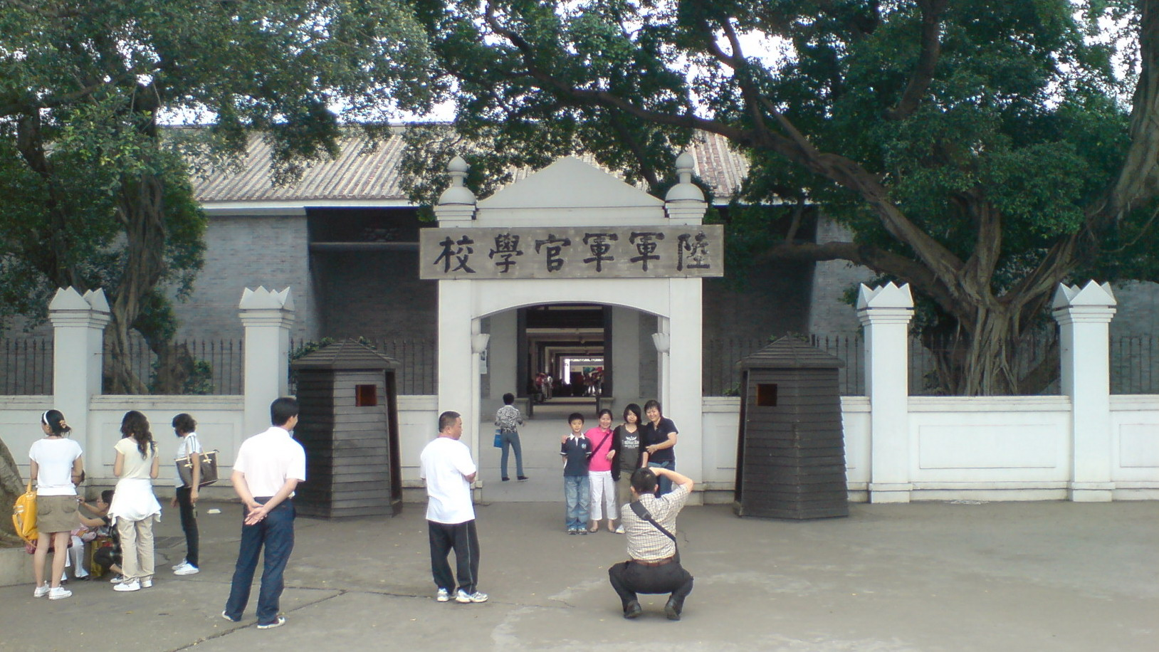 The Whampoa Military Academy in Canton, China.